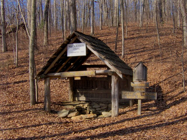 Rankin Spring, one of several watering holes on Lone Mountain, near Mossy Grove, Tennessee, in the Southeastern United States. The trails criss-crossing Lone Mountain were originally developed for horseback riders, and were thus equipped with watering holes and hitching posts.